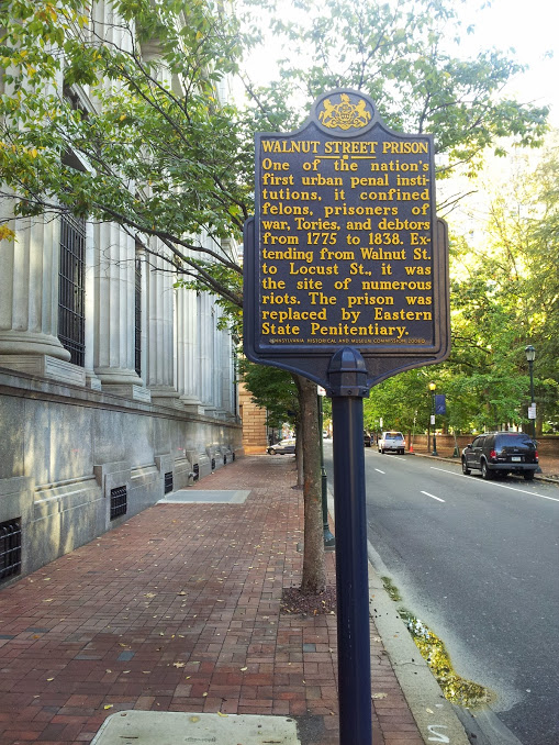 Walnut Street Prison, Pennsylvania Historical Marker, on southeast corner of 6th and Walnut Streets. Photograph facing south on October 14, 2014 by Morris Levin.